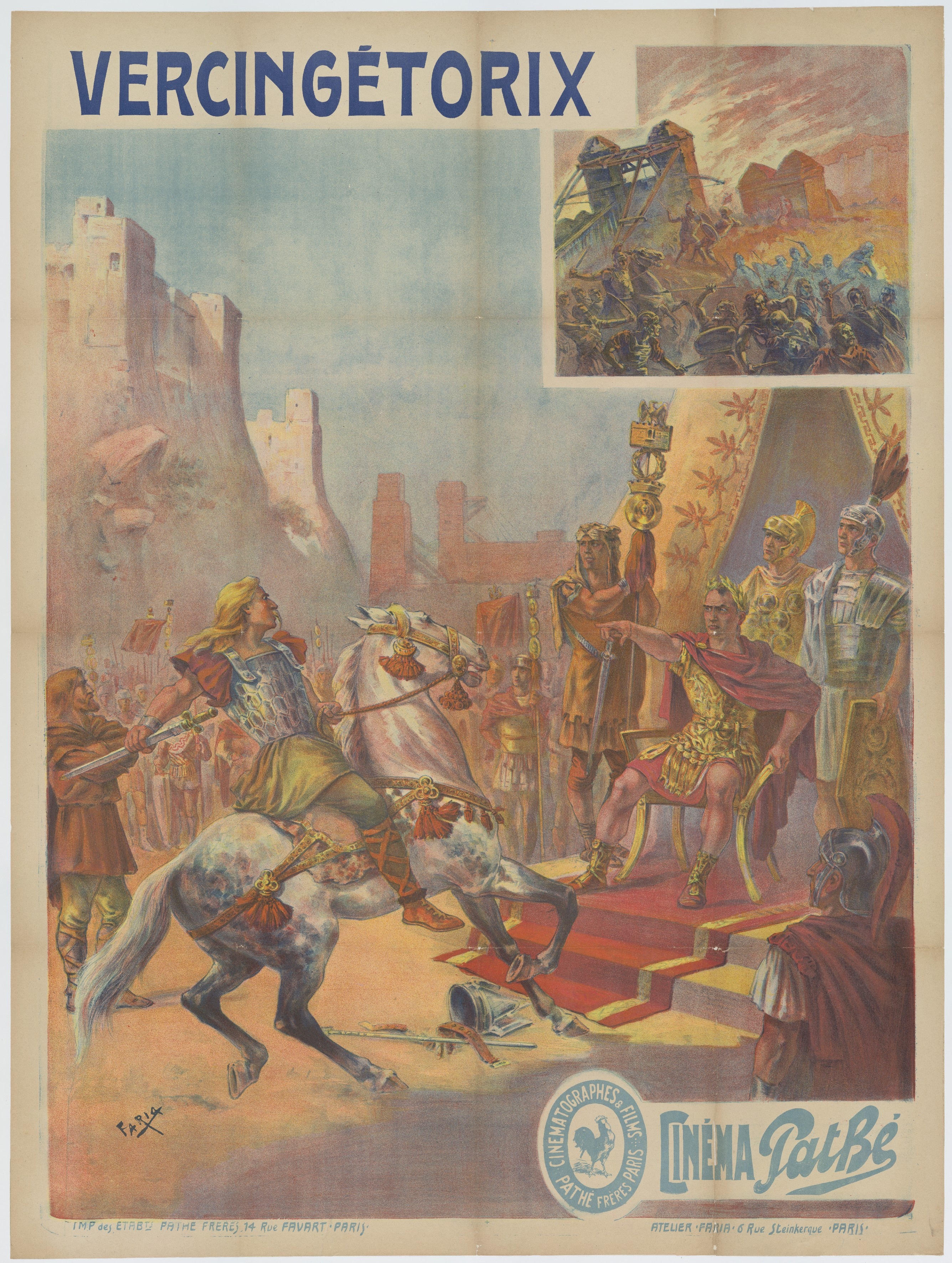 Poster for Pathé Frères (France). Film:Vercingétorix (FR, director ?, 1909, Pathé Frères). Imprimerie Pathé Frères (Frankrijk) Litho